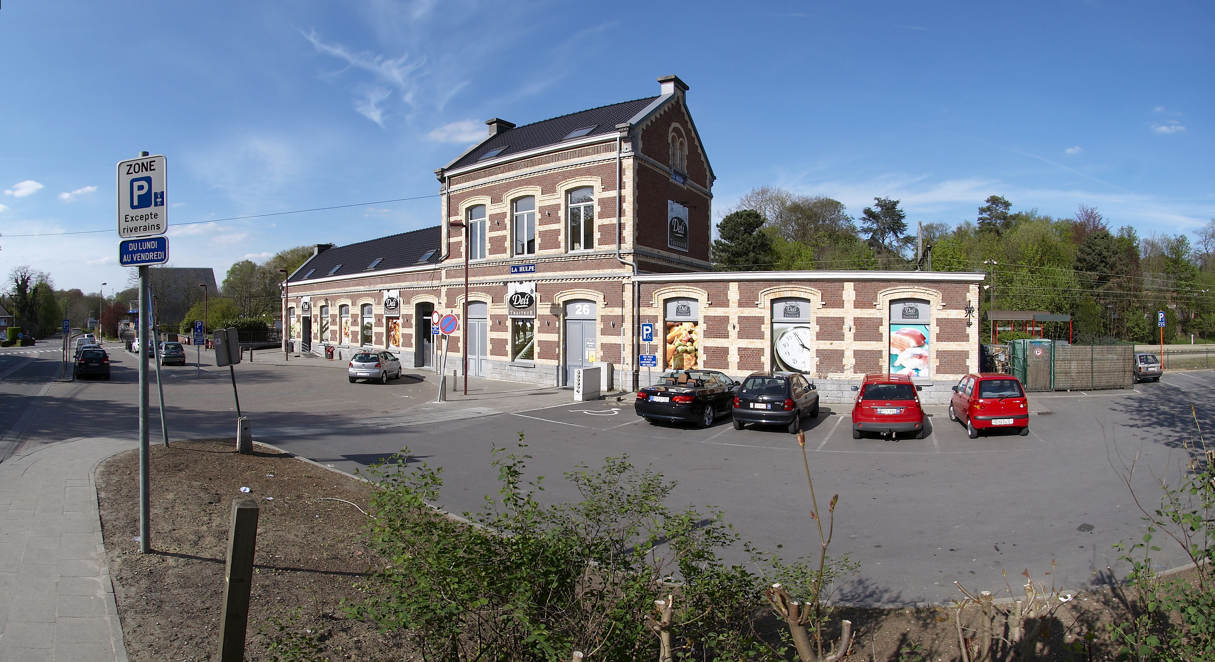 Train station in La Hulpe, Belgium. Other photos: - Google Maps - Google Earth